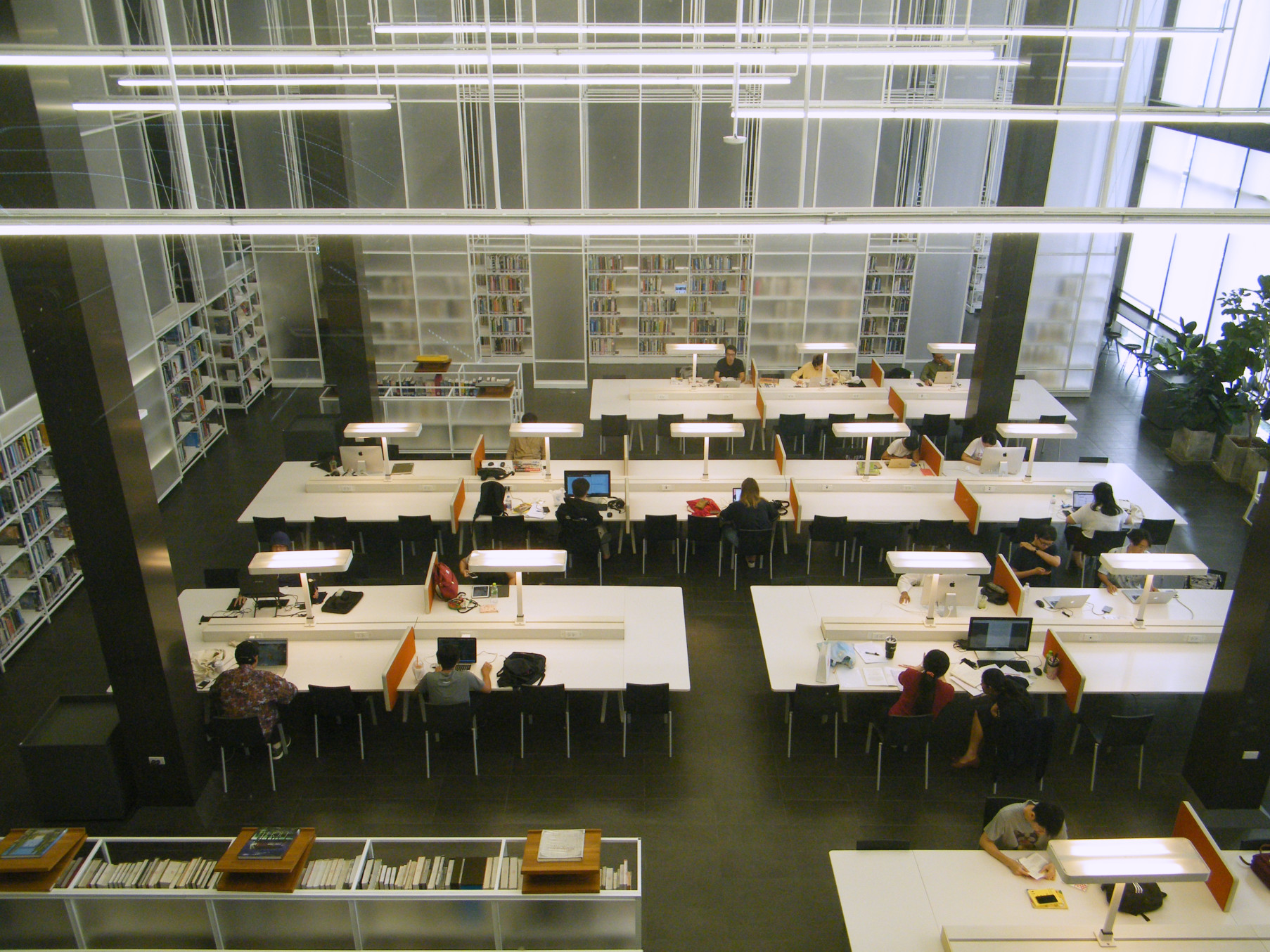 Resource Center library of Thailand Creative and Design Center (TCDC) Bangkok, fourth floor of the Grand Postal Building (backside); photographed from the fifth floor.